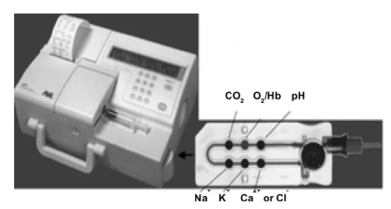 For use on Molecular sensor